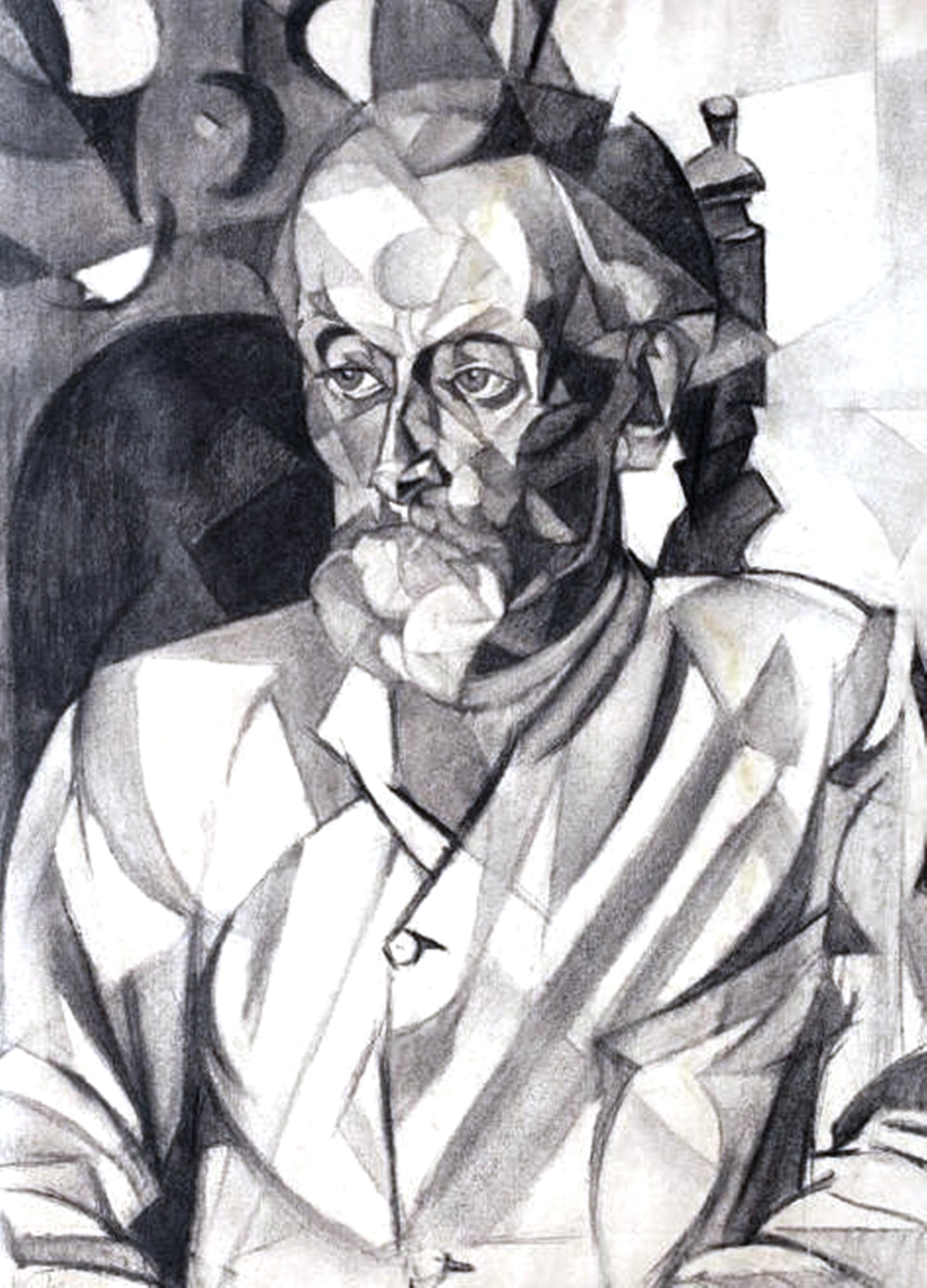 Portretul lui Zamfir Arbore ("Portrait of Zamfir Arbore"), charcoal on paper. Arbore (Arbure), the anarchist scholar, was father of Bulighin's colleague Nina Arbore.